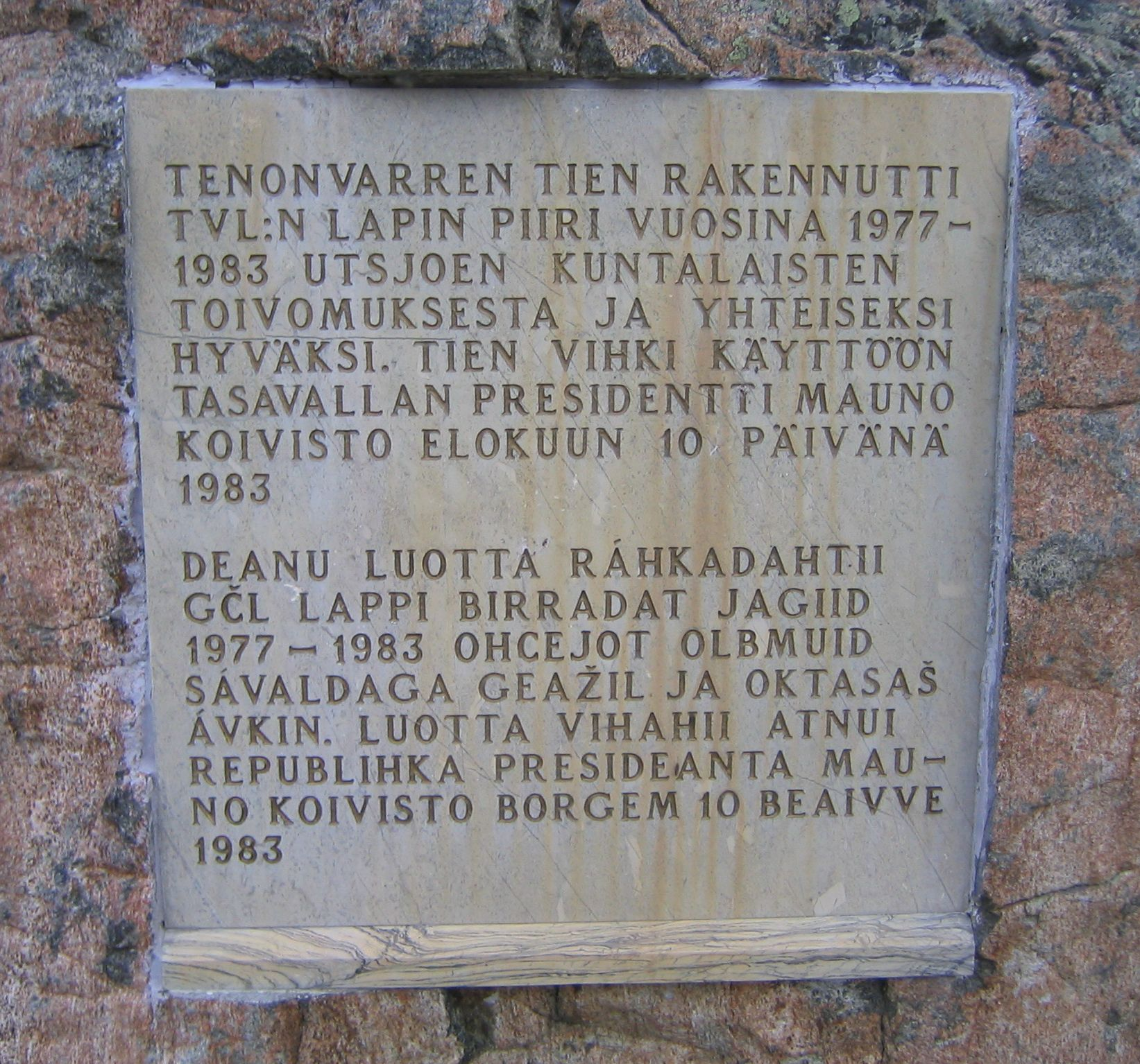 Monument for Finnish regional road 970 in Utsjoki, Finland. The original text is in Finnish and Sami. Rough translation of the text: Lapland region of the Finnish Road Administration built the Road by Teno river in 1977–1983 at request of the people of Utsjoki municipality and for the common good. The road was opened on the 10th of August, 1983 by Mauno Koivisto, President of the Republic of Finland.